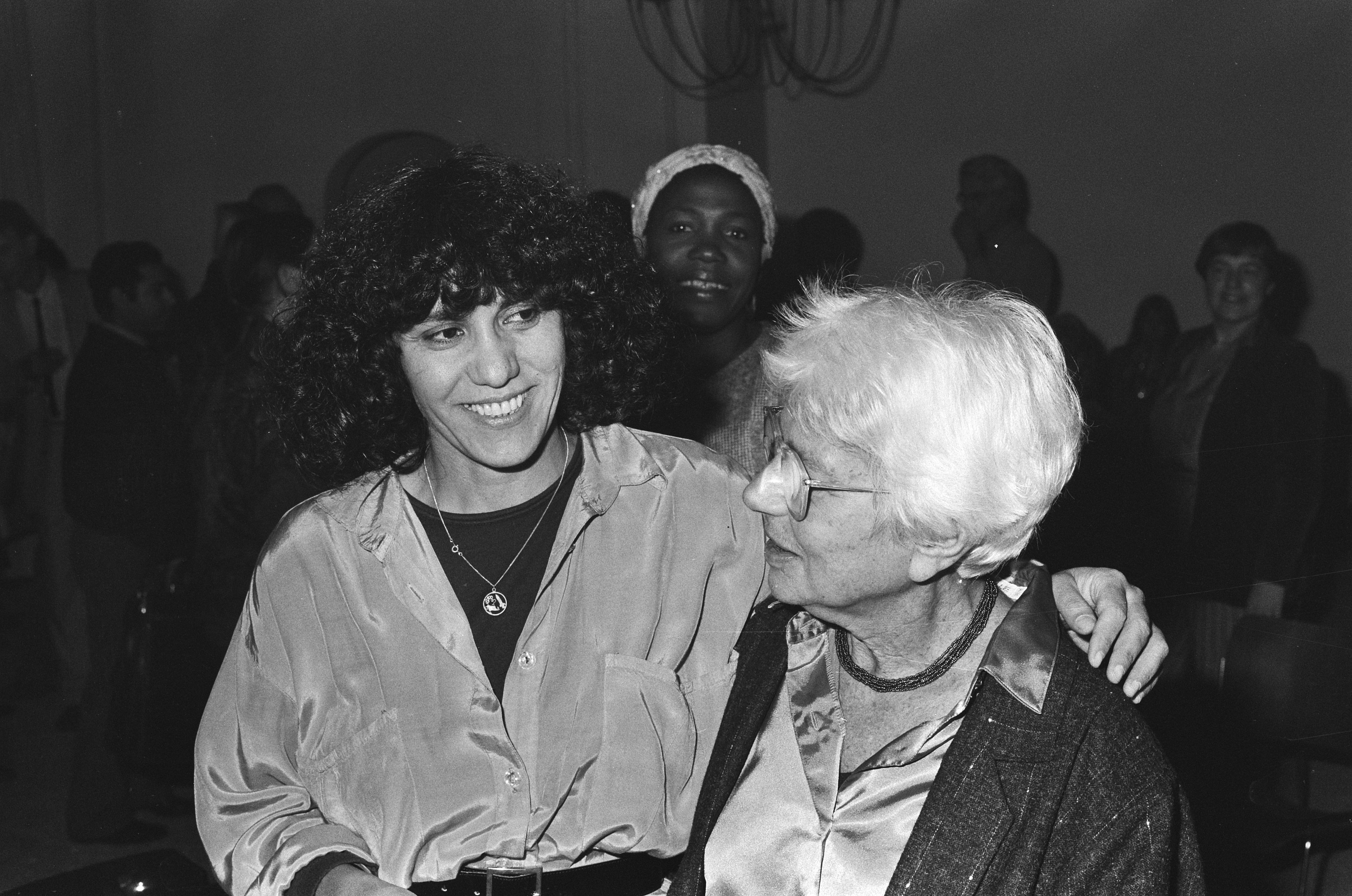 Uitreiking in Amsterdam van de Harriët Freezerring en de Annie Romeinprijs aan respectievelijk Maviye Karaman (links) en Eva Besnyö (rechts)